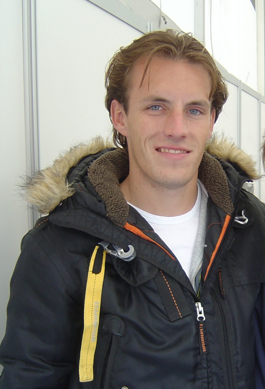 Yelmer Buurman: the photo was taken during 2009's ADAC GT Masters race weekend at Hockenheim